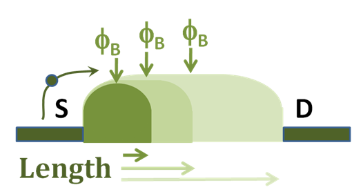 Barrier lowering in MOSFET as channel length reduces